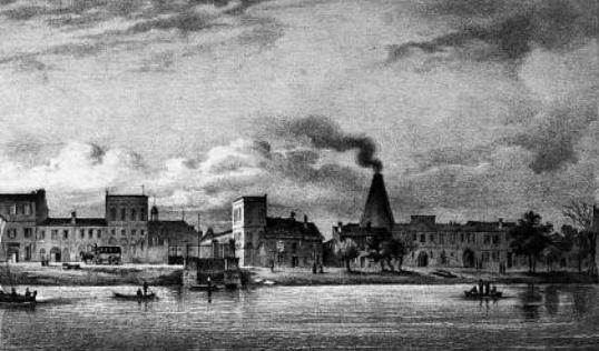 The Mitchell glass industry at Bordeaux, Bacalan, circa 1830